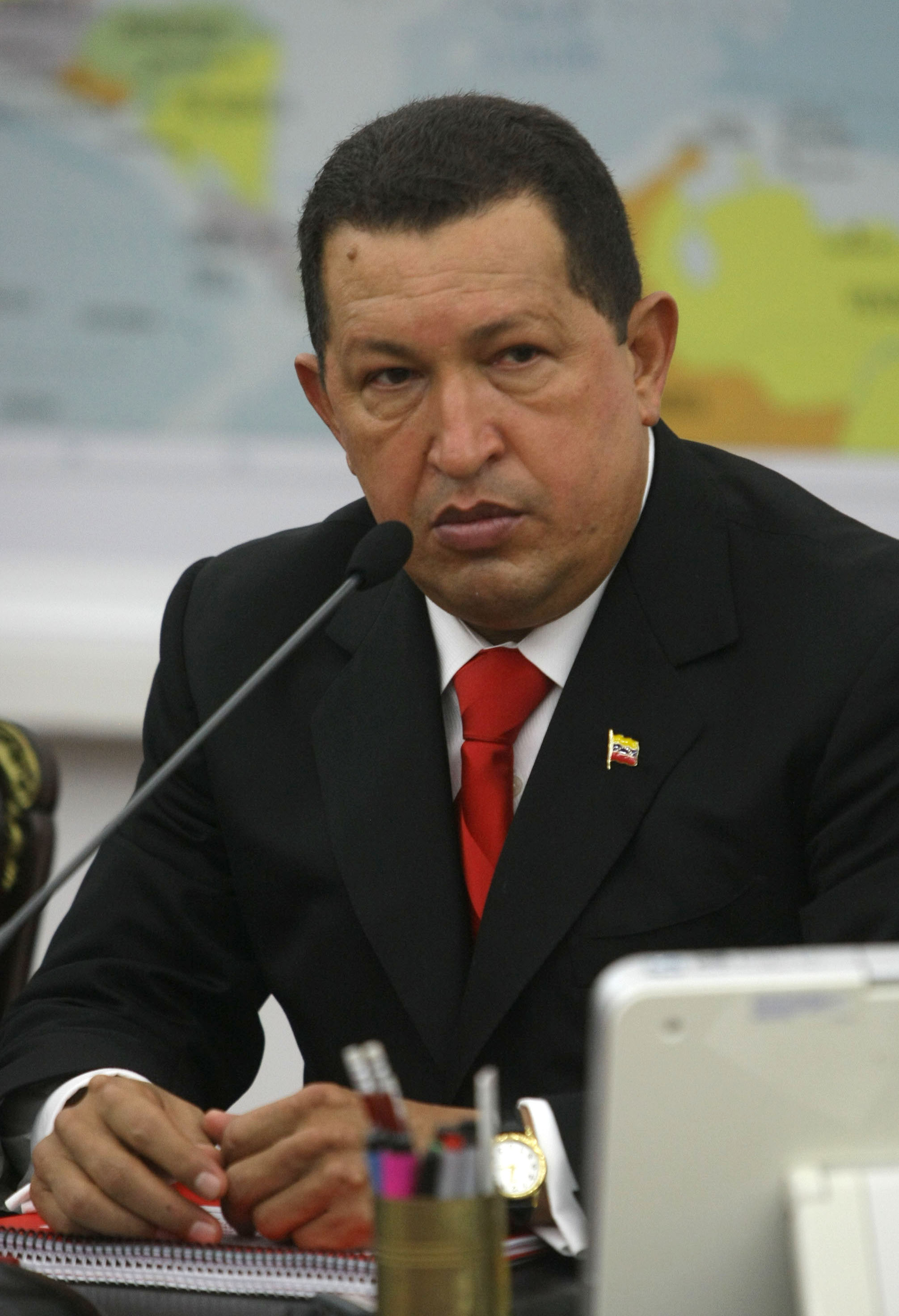 Hugo Chávez seated behind a microphone in 2010